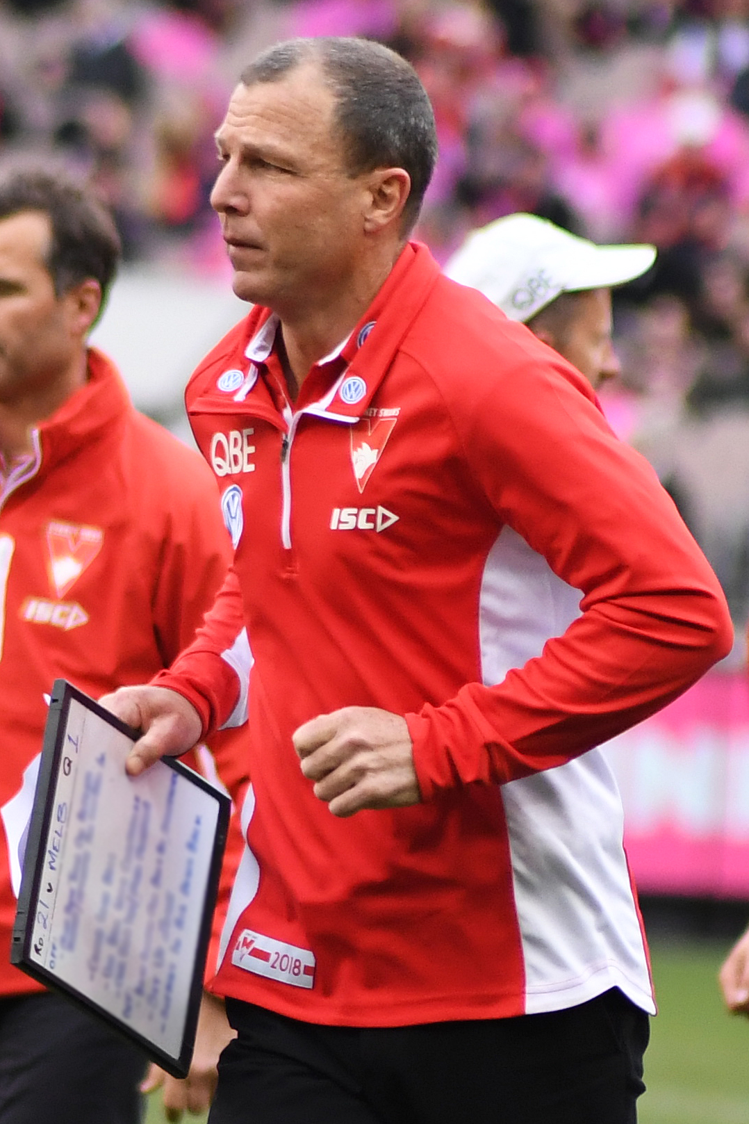 John Blakey of Sydney during the 2018 AFL round 21 match between Melbourne and Sydney at the Melbourne Cricket Ground on Sunday, 12 August 2018 in Melbourne, Victoria.